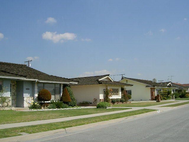 Personal photo of traditional Downey Ginger Bread homes. Released to the public domain.